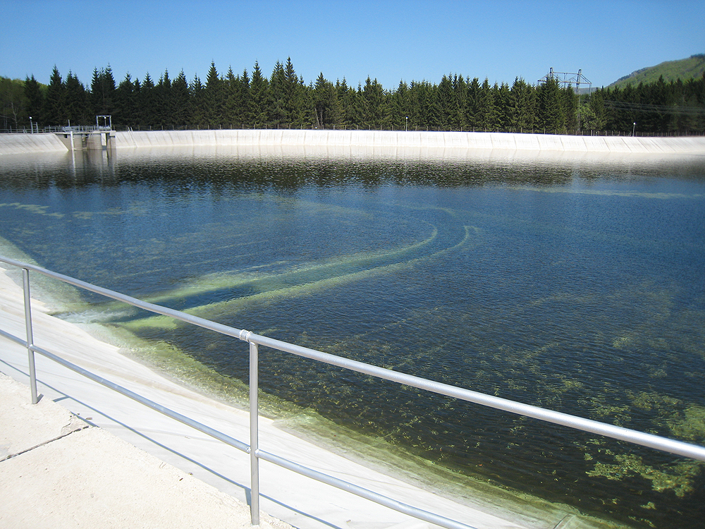 Petrohan Reservoir